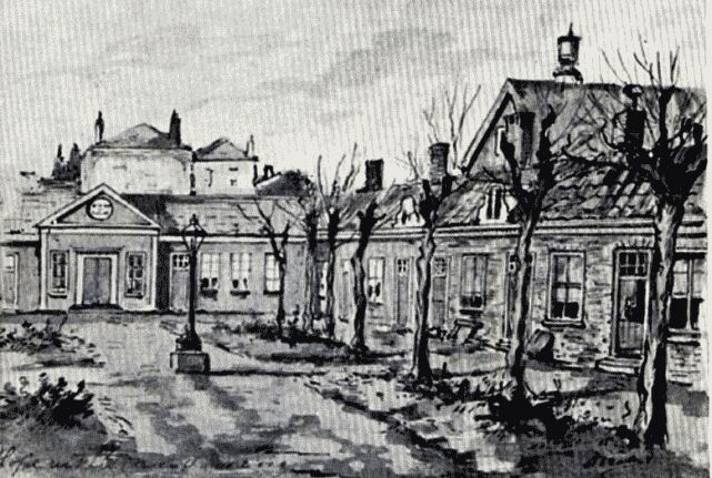 Almshouse Uit Liefde en Voorzorg 1900